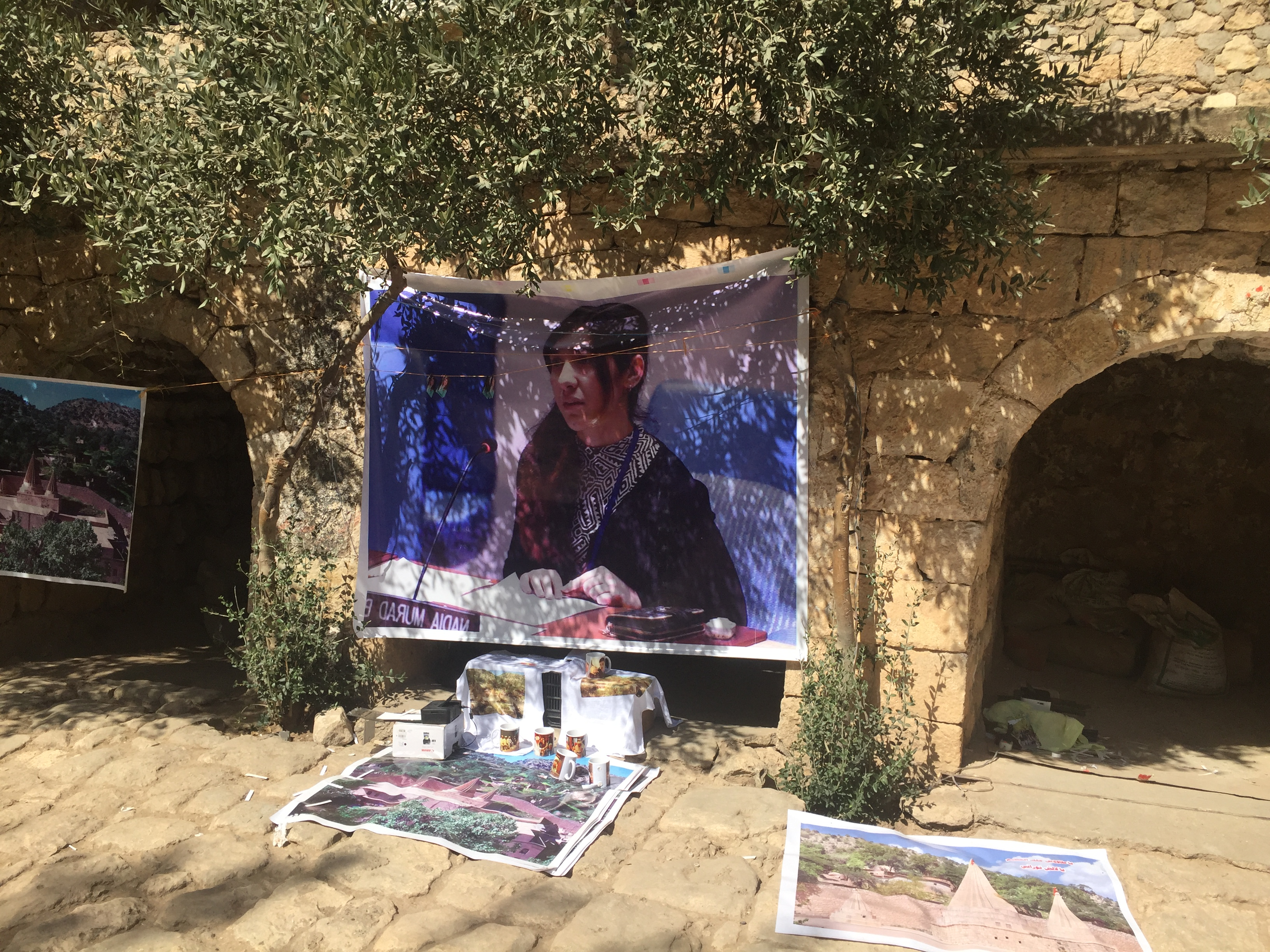 Yazidi holy temple of Lalish (Kurdistan-Irak), poster of the Yazidi Nadia Murad speaking of the atrocities by the so-called "Islamic State" before the UN security council.